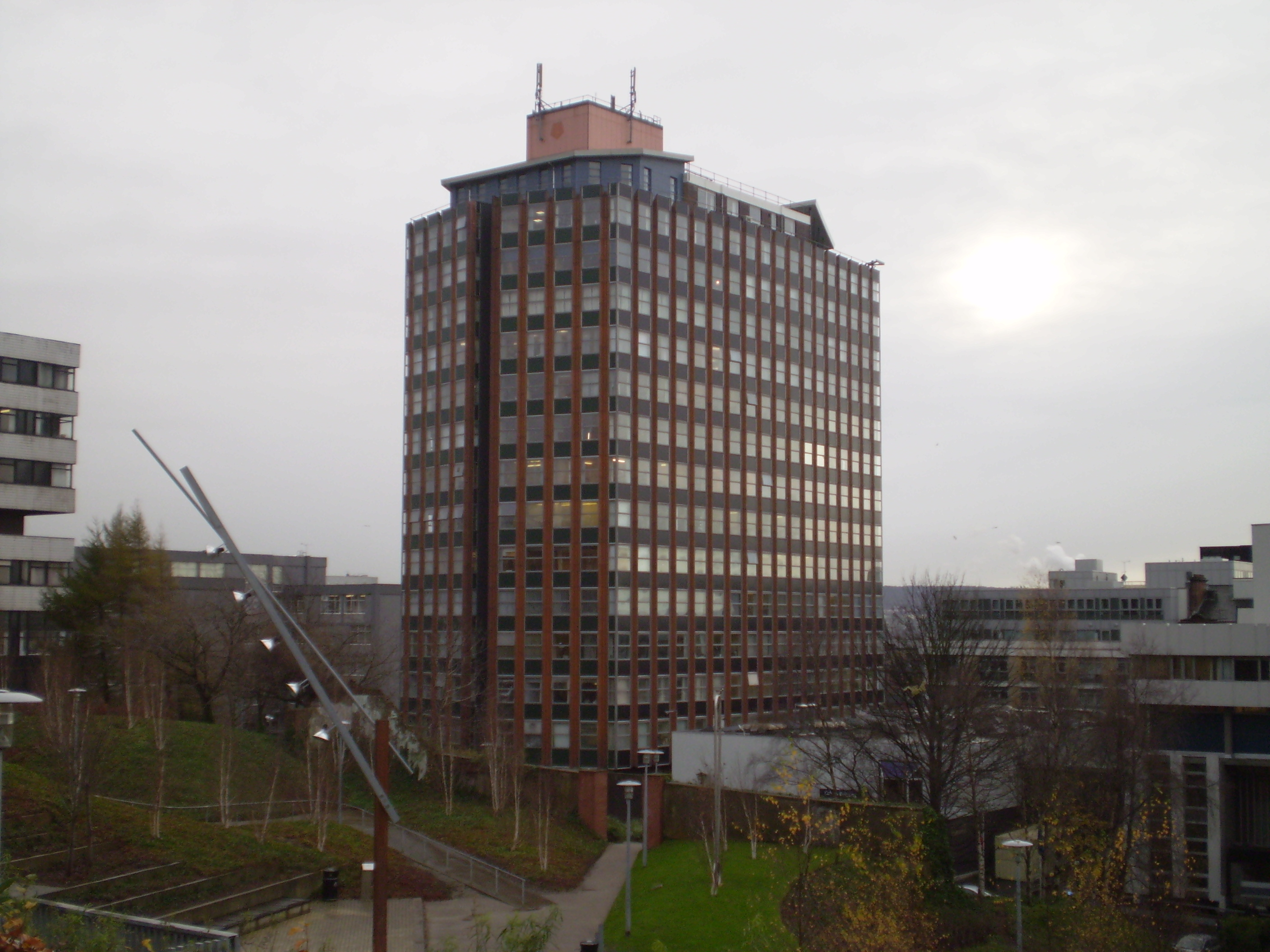 The Livingstone Tower on the John Anderson campus, University of Strathclyde, Scotland.